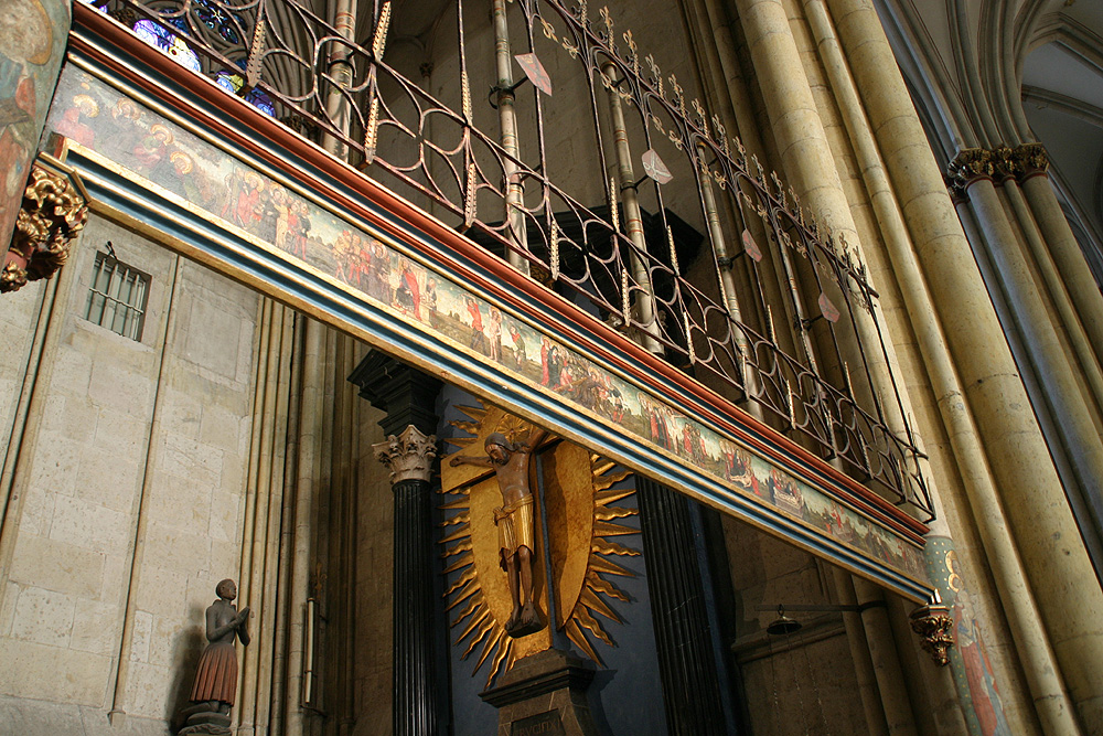 „Schneiderbalken“ (Tailors' Beam), a large candle holder donated by the Cologne tailors' guild in 1351 near the „Gero crucifix“, Cologne Cathedral, Germany author: Elke Wetzig (elya) date: 2006-01-14